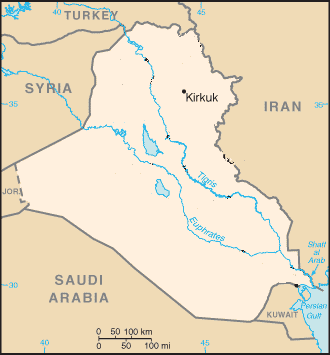 Location of Kirkuk The original map is from CIA World FactBook, which is in public domain.